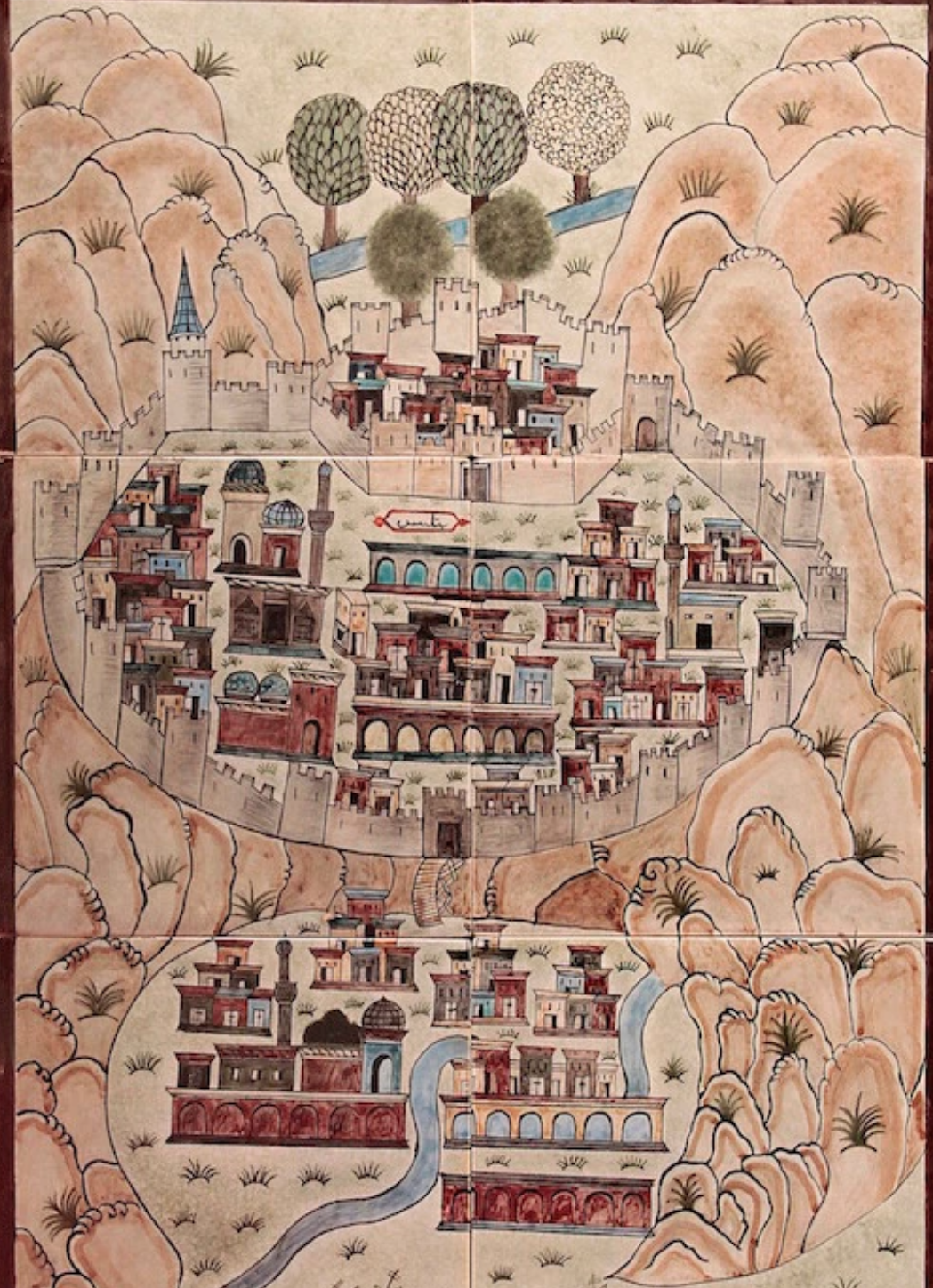 Bitlis, Matrakci Nasuh